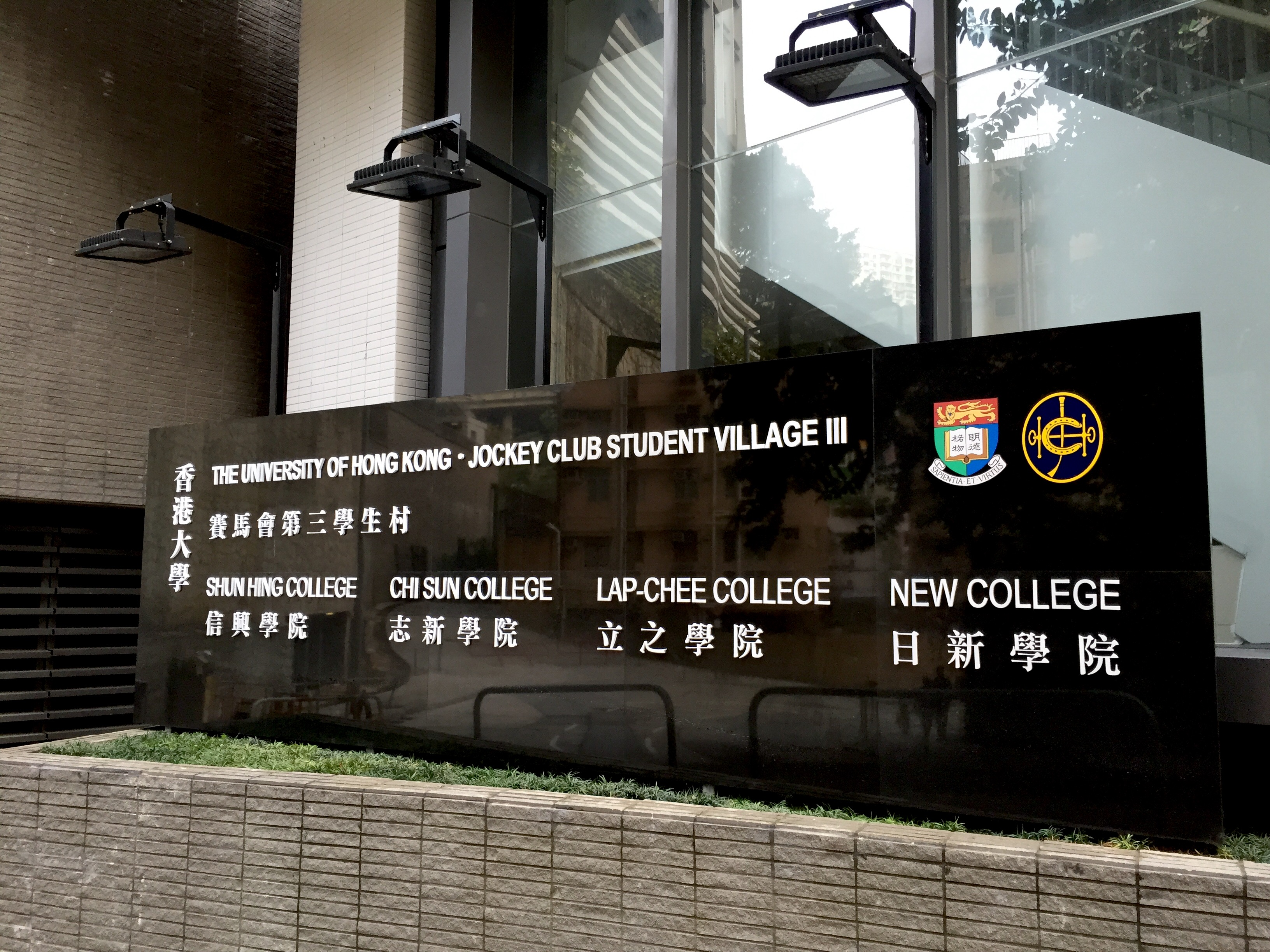 Nameplate of Jockey Club Student Village III, the University of Hong Kong